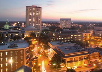 Skyline of Tallahassee, Florida